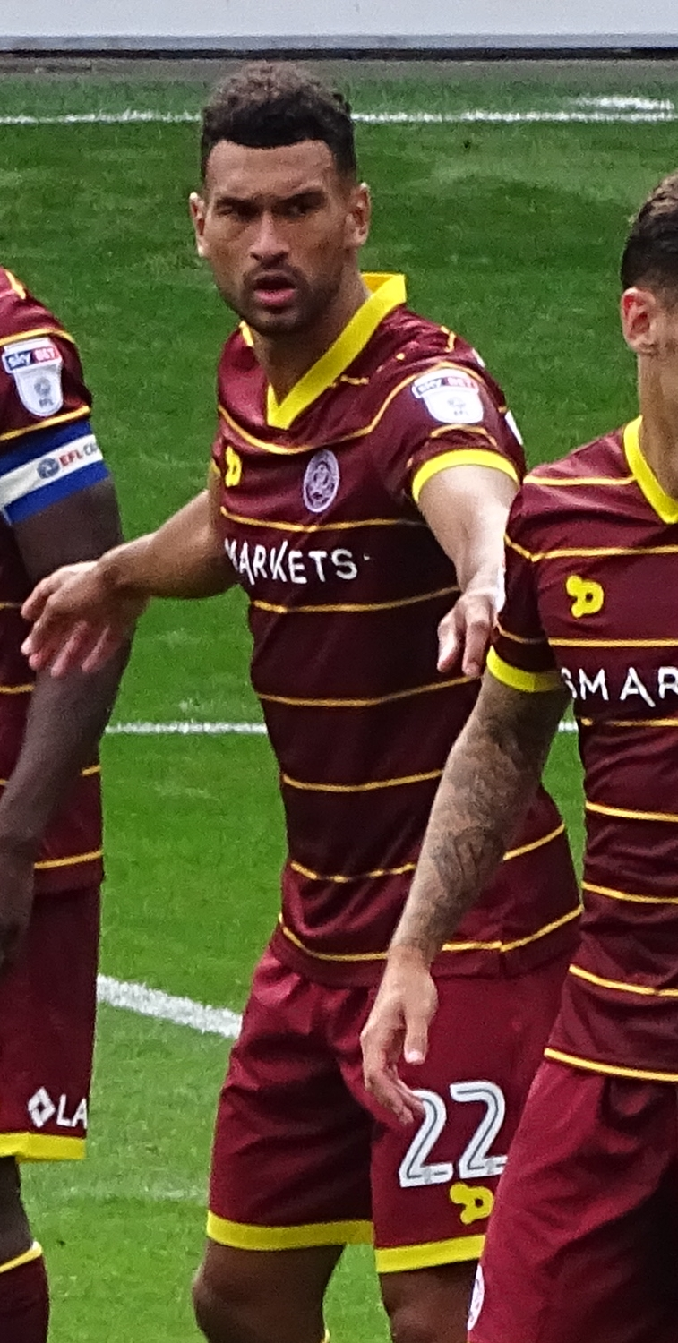 Steven Caulker playing for Queens Park Rangers against Cardiff City at the Cardiff City Stadium on 14 August 2016